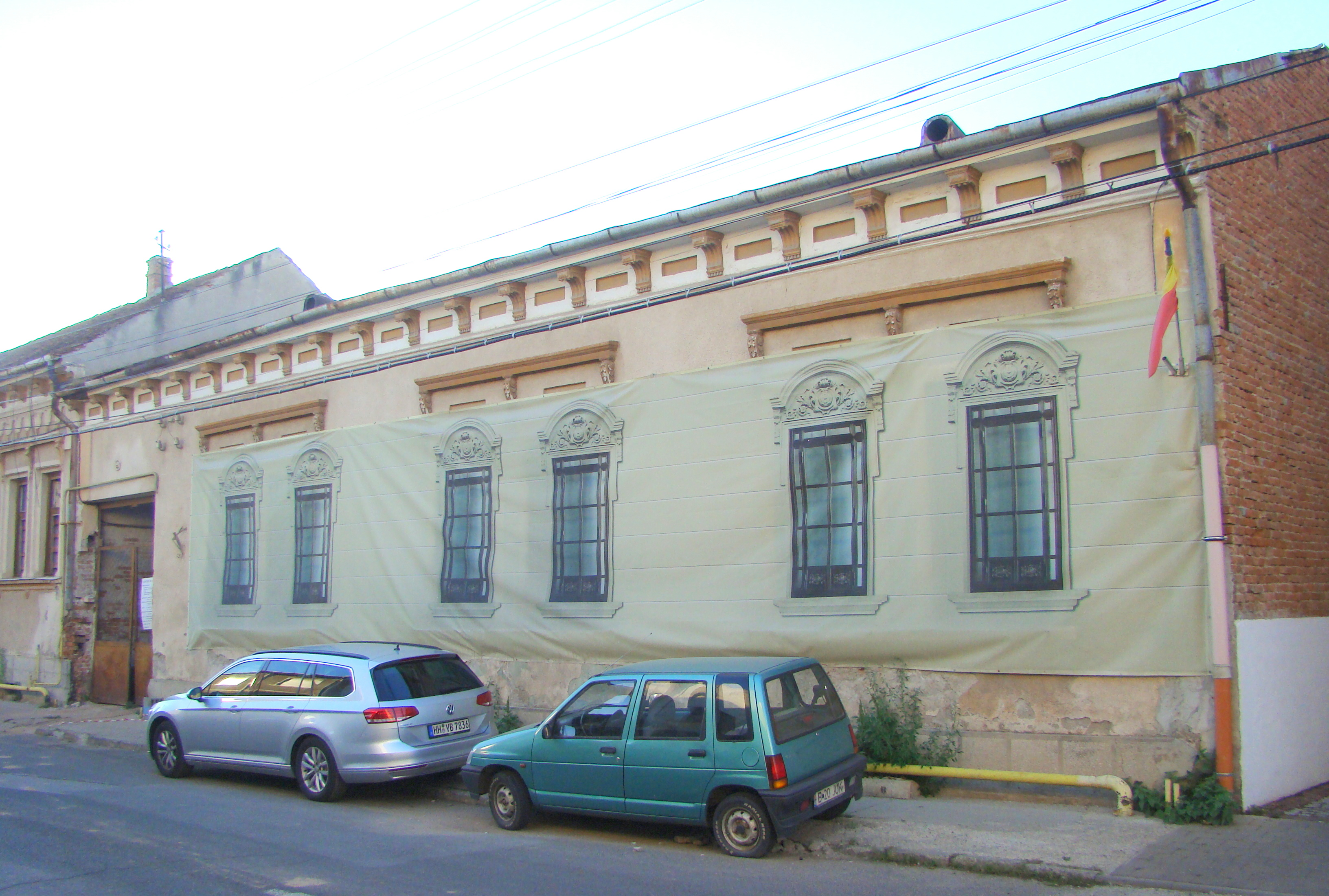 House, historic monument, Primăverii street, number 9, Alba Iulia, Alba county, Romania